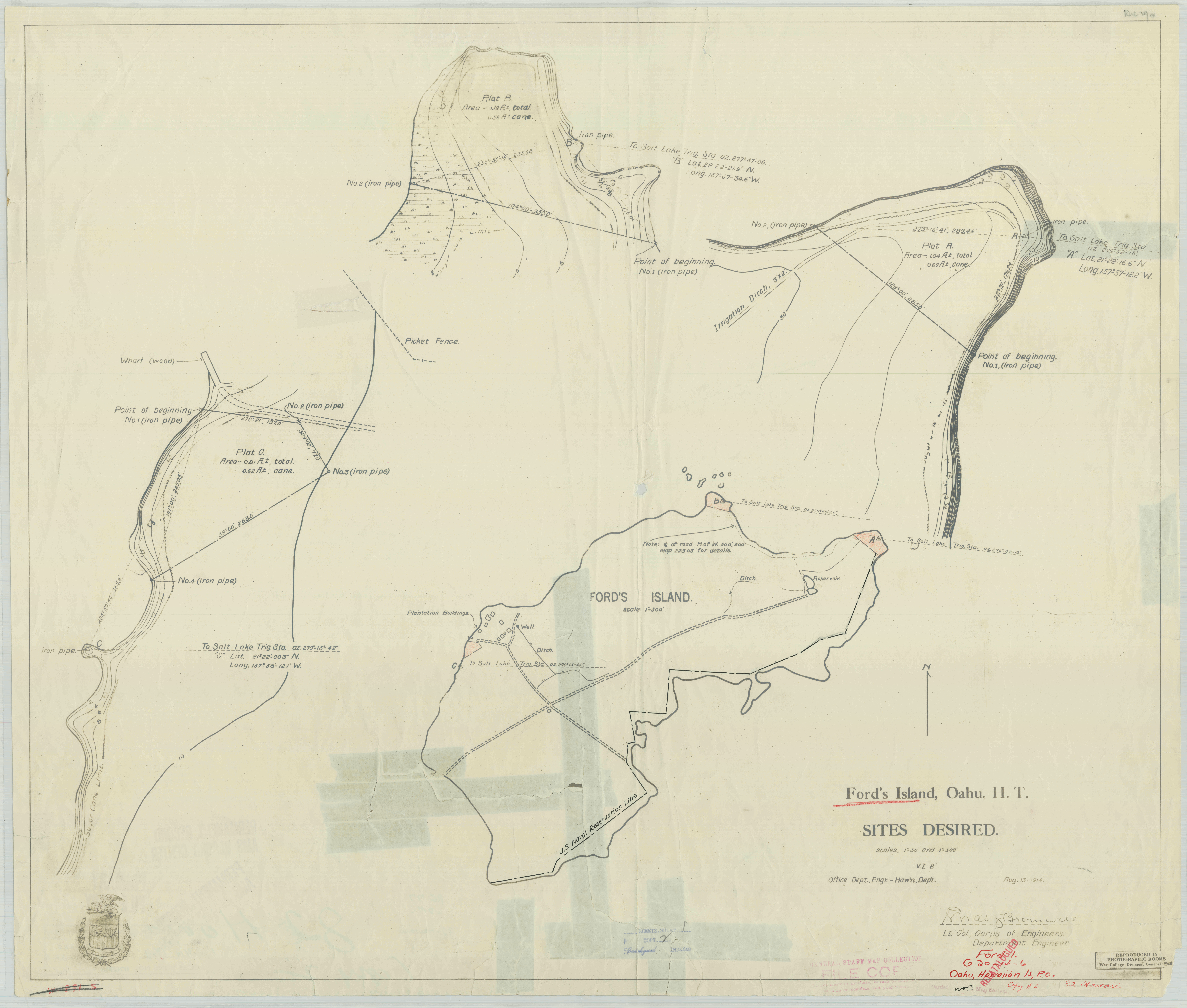 "Map of Ford's Island, Oahu, H. T." This comes from the War Department Map Collection, 1895-1942 series at the National Archives and Records Administration. This is a temporary description until a catalog record is created with authoritative metadata.